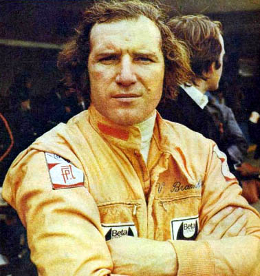 Italian racecar driver Vittorio Brambilla at the Austrian Grand Prix.